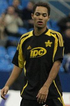 José Nadson Ferreira